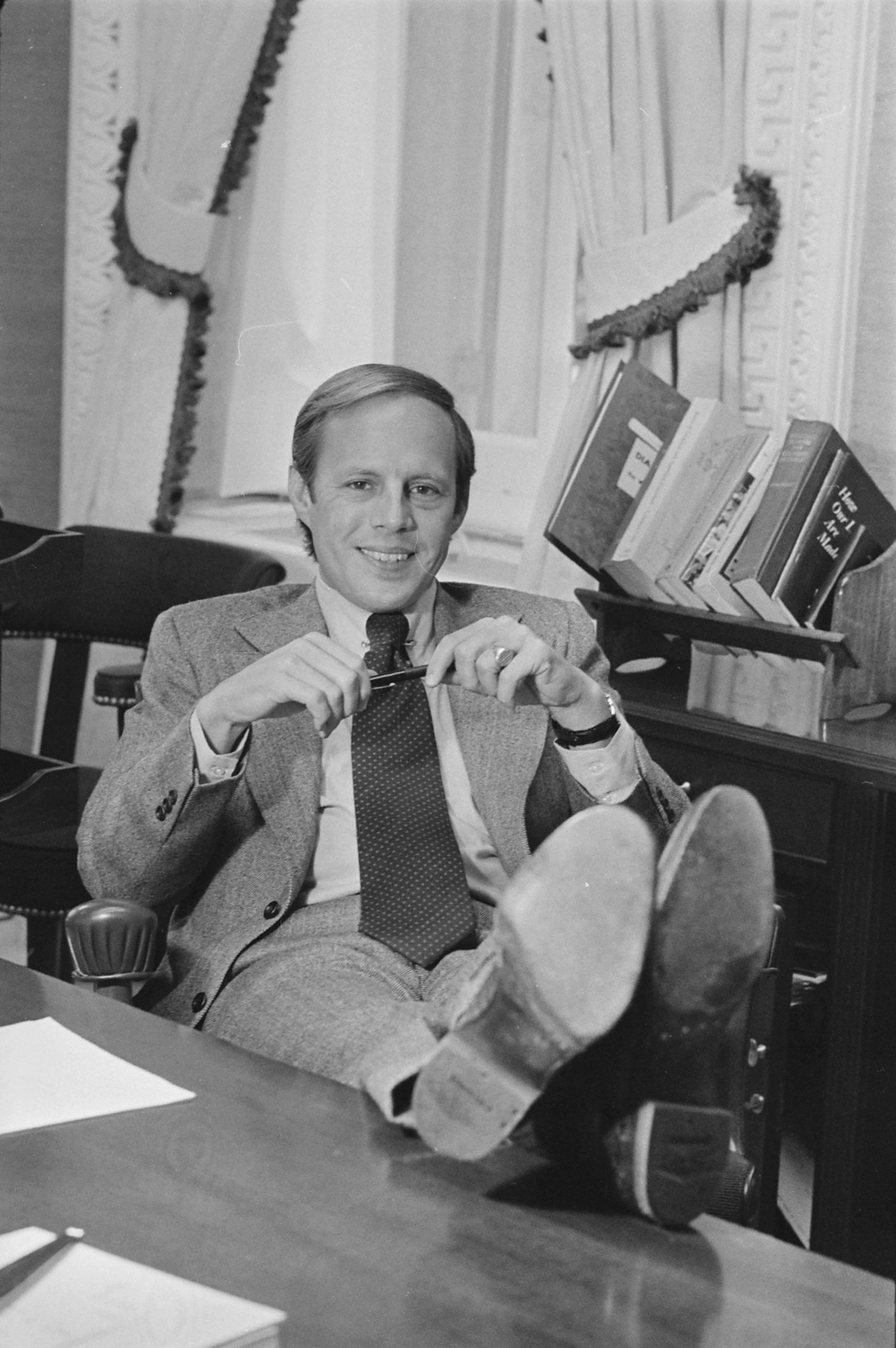 Scope and content: Pictured: John Dean, Counsel to the President. Subject: Staff Portraits II.